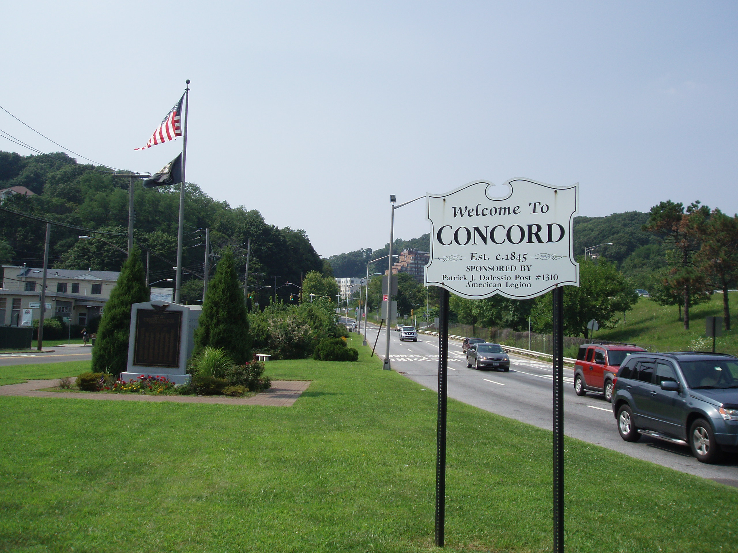 Welcome To Concord Sign, and World War II Memorial